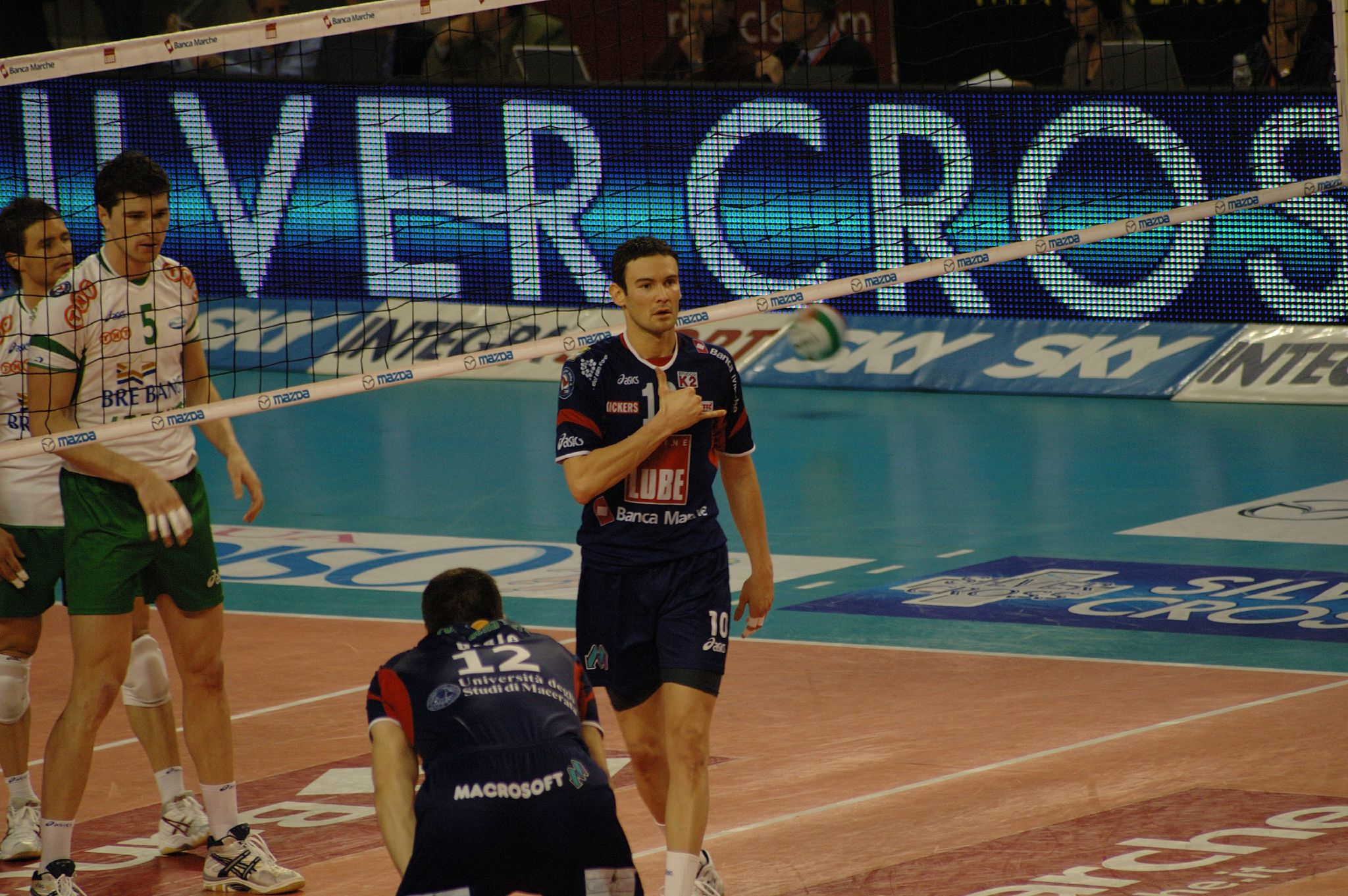 The italian volleyball player Giacomo (Jack) Sintini